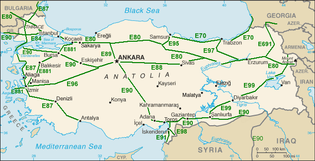 Maps over the E-roads in Turkey.